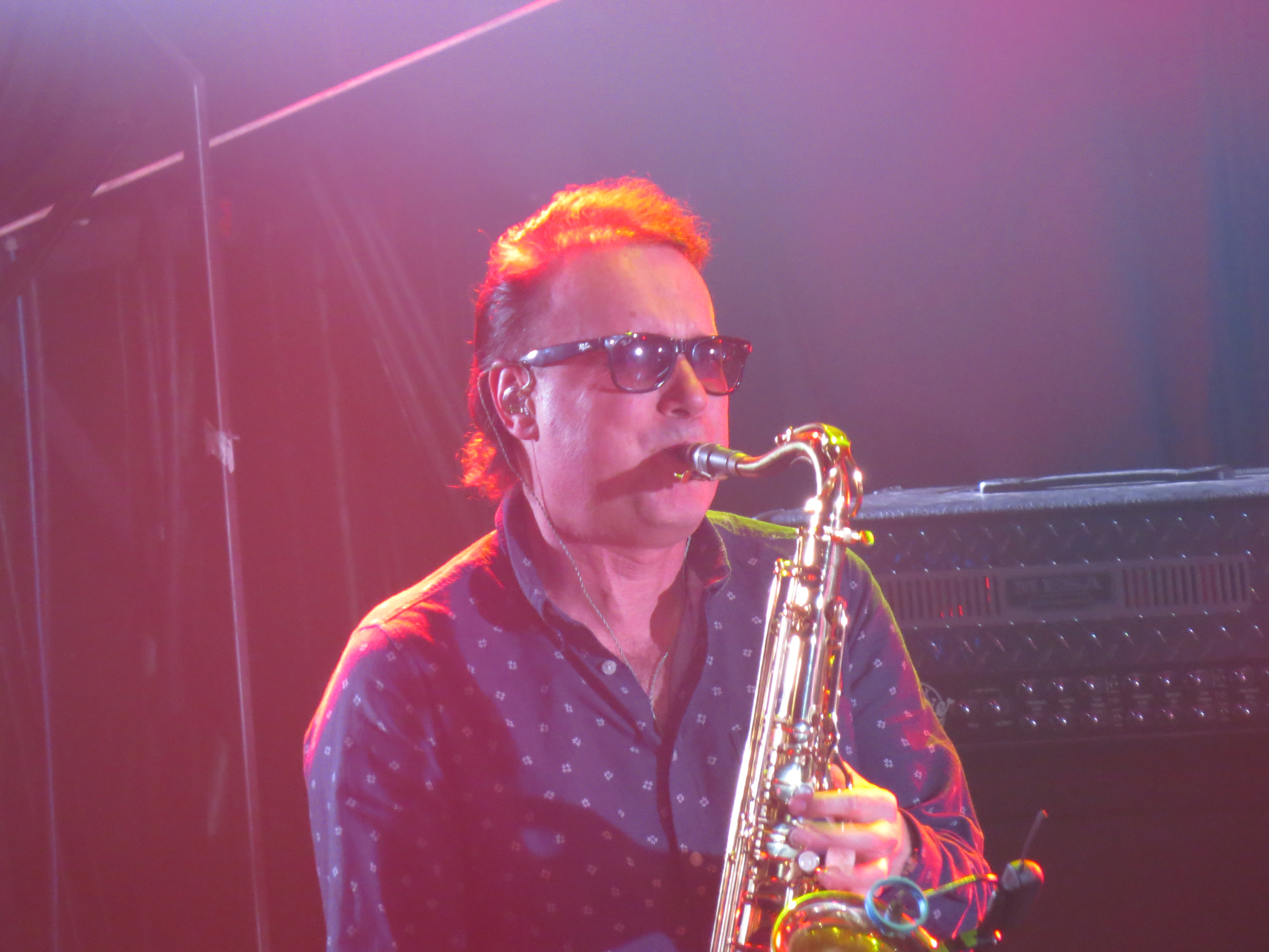 Concert "20 years of Runet" in Arena Moscow. April 7, 2014.